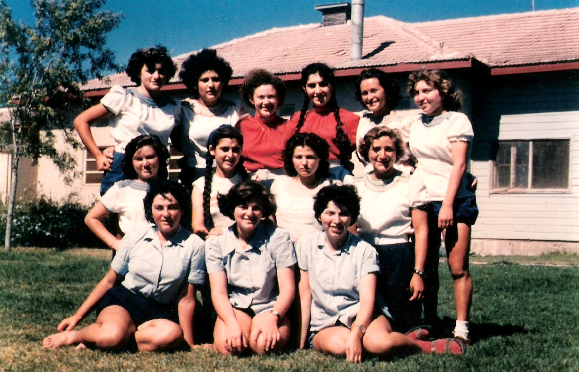 Immigration to Israel